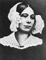 Photograph of Riborg Voight